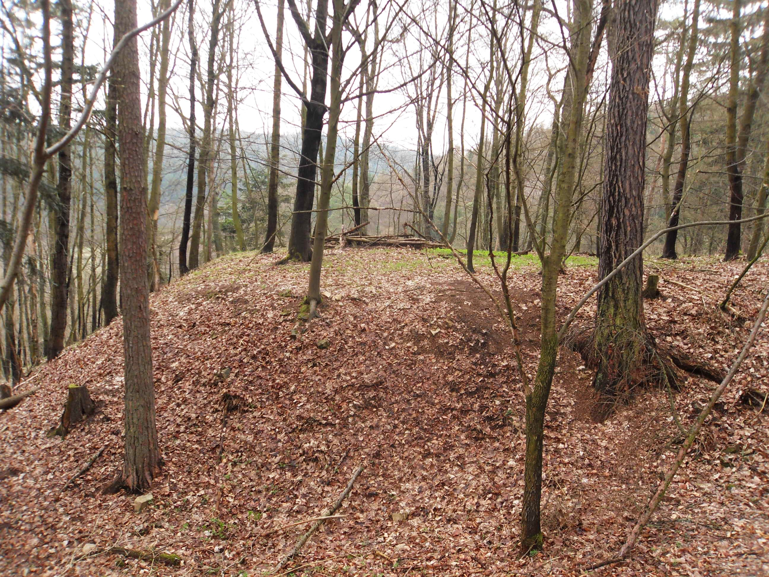 Remains of castle, Zbraslav, Brno-Country District, Czech Republic